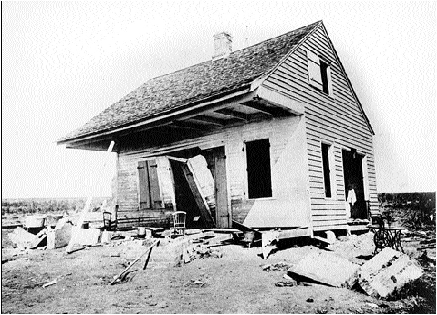 House after the 1893 Cheniere Caminada Hurricane A hurricane hit the community of Cheniere Caminada, Louisiana in 1893, leaving only a single, damaged home. Some survivors retreated to what is now Golden Meadow, and others migrated farther inland.